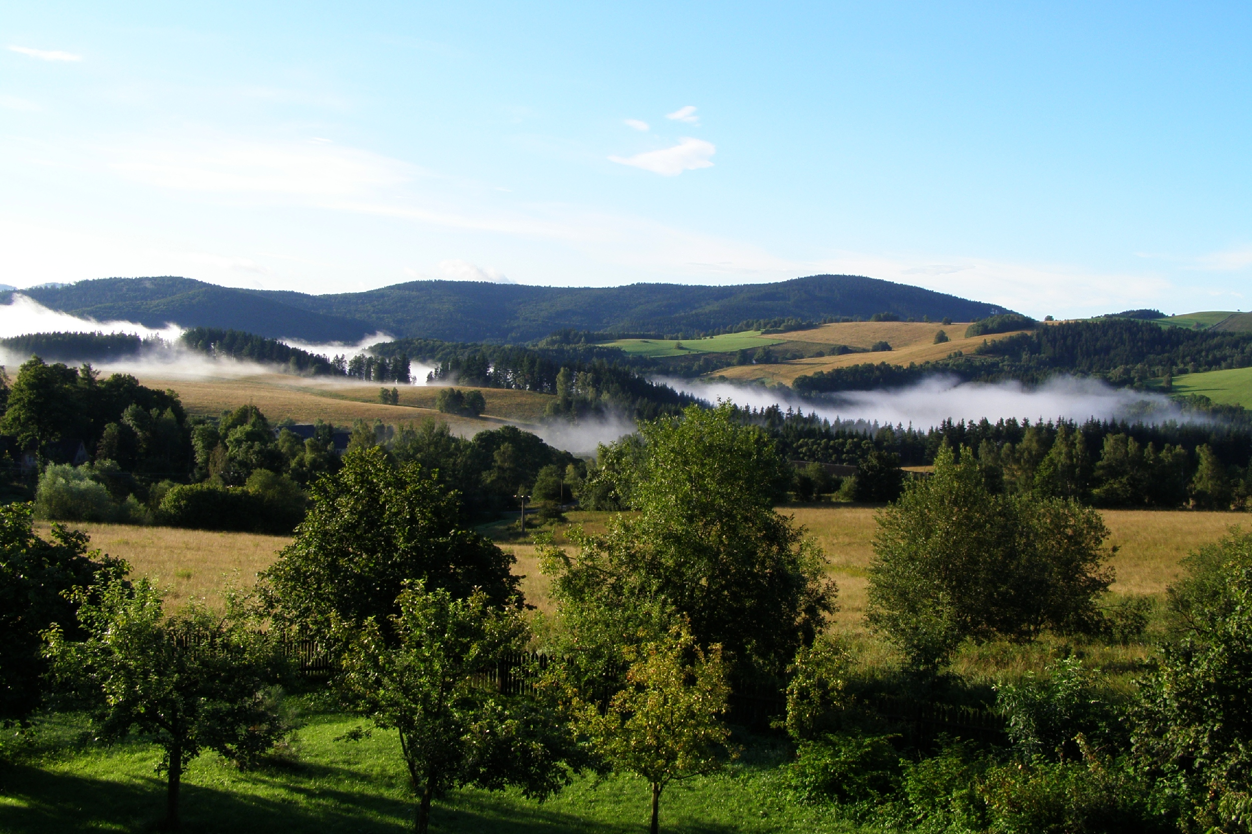 Malá Morava. Morava river valley